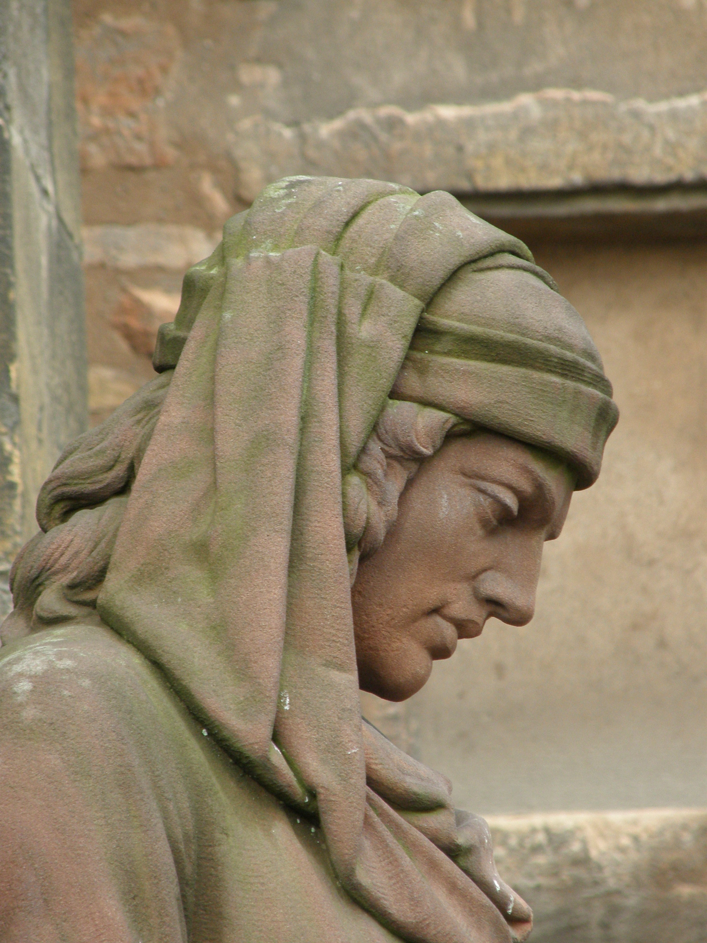 Statue of Martin Schongauer (detail) by Frédéric Auguste Bartholdi (1860) in Colmar (Haut-Rhin, France).